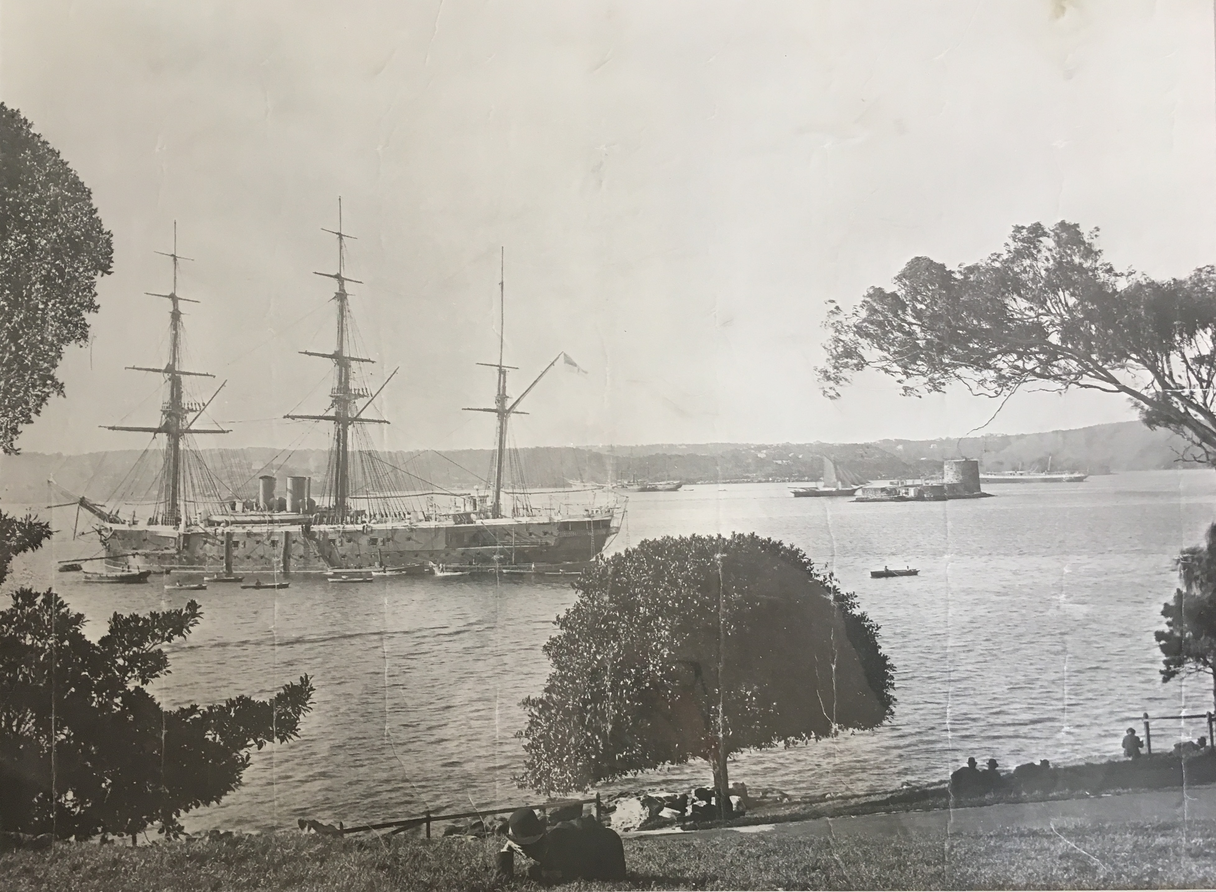 HMS Nelson was on station in Australia as its flagship. Here it is in Sydney Harbour near Fort Denison in 1885.